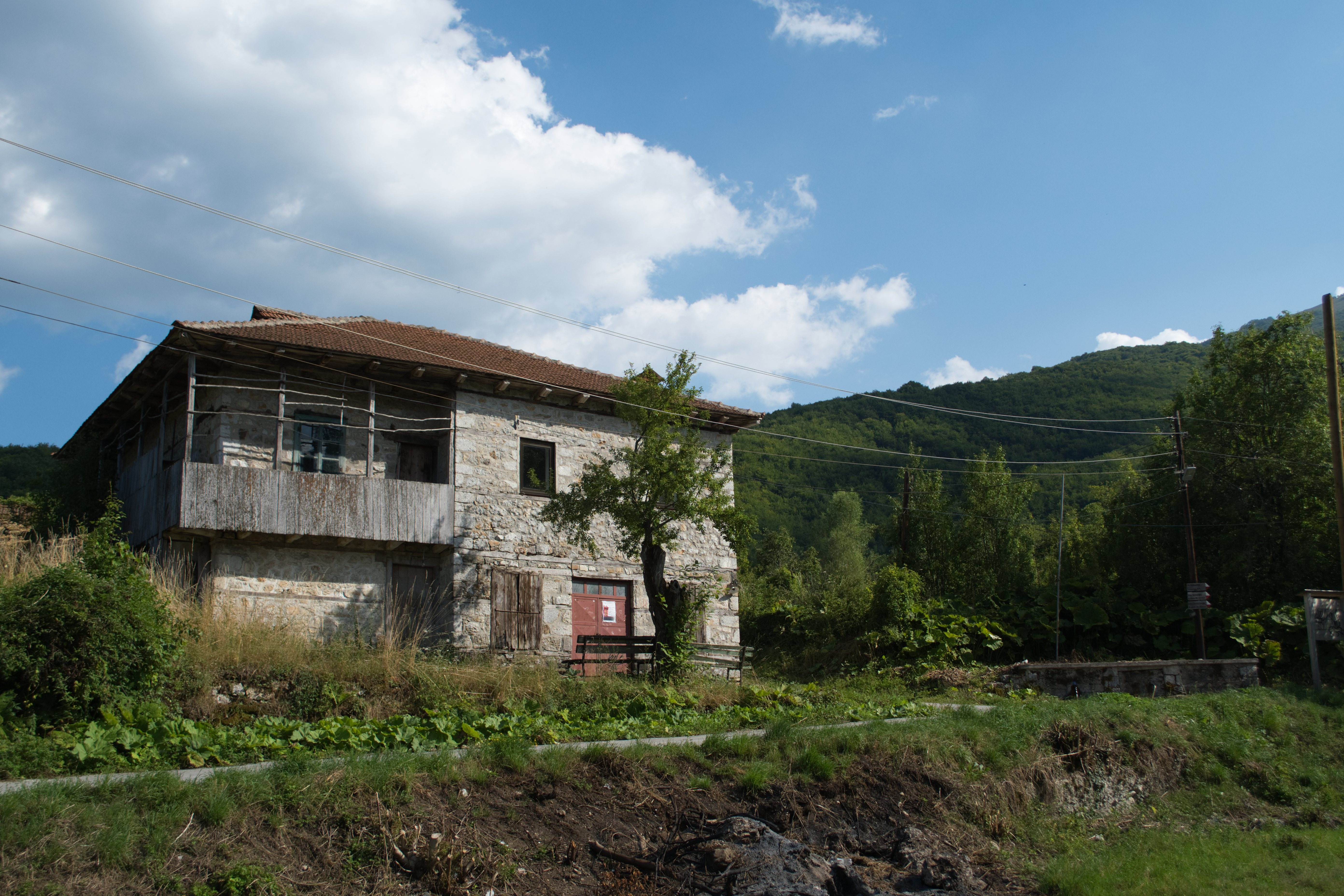 An old house in the village of Modrič